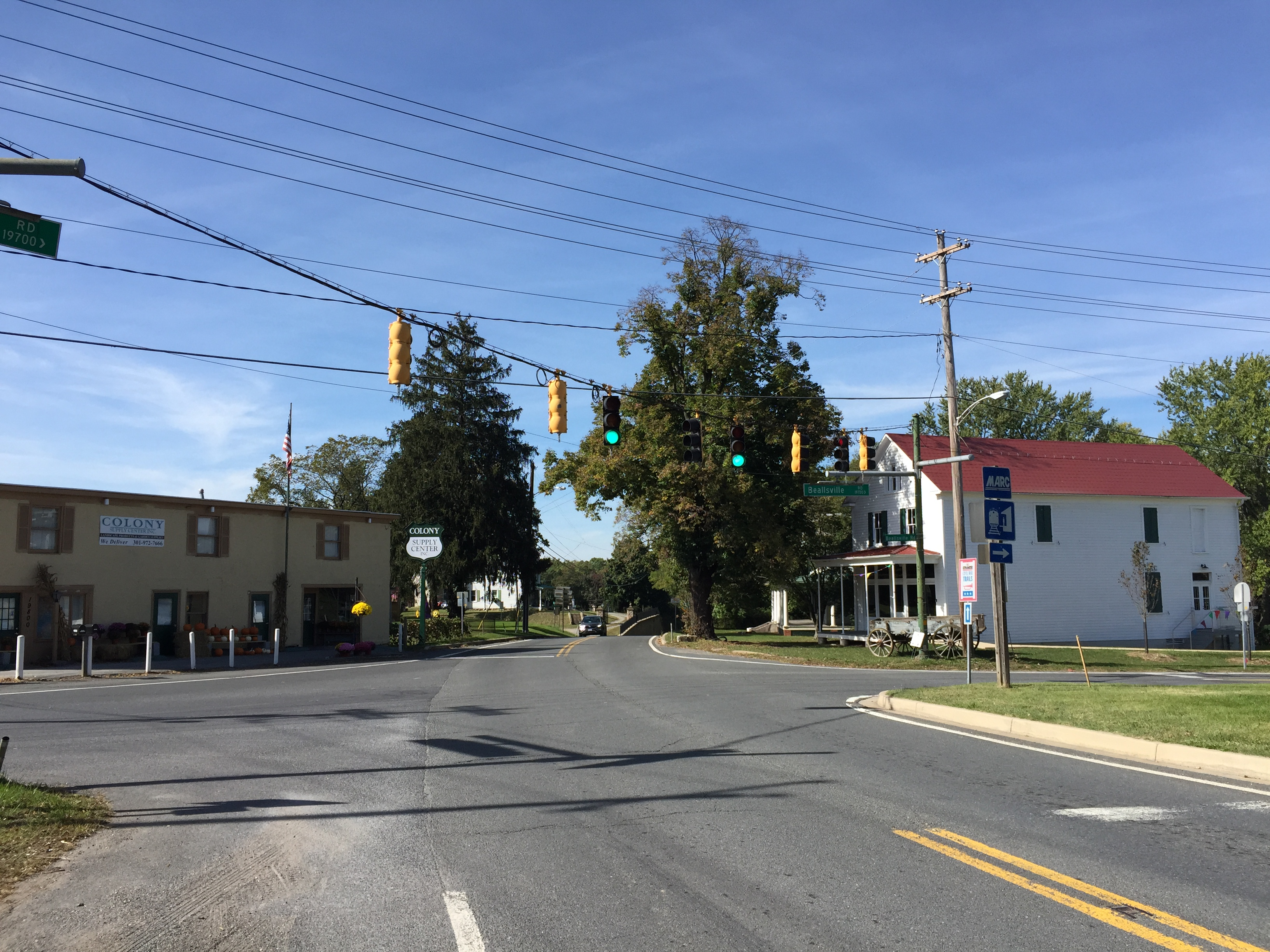 View west along Maryland Route 28 (Darnestown Road) at Maryland State Route 109 (Beallsville Road) in Beallsville, Montgomery County, Maryland